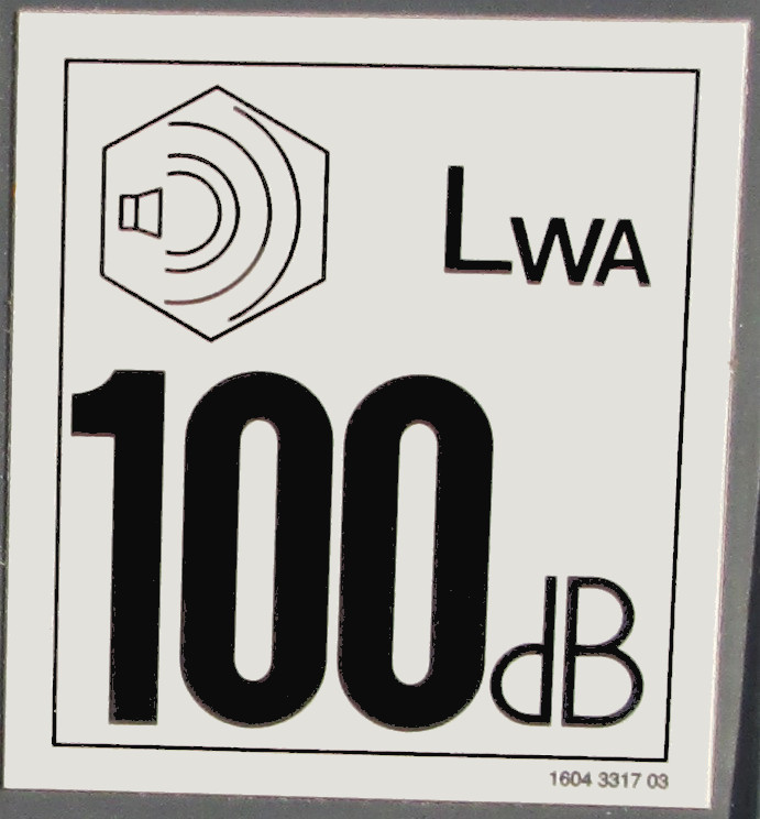 Atlas Copco XAHS 347 portable air compressor's SWL label; manufacturing year: 2013. Max. sound power level (LWA): 100 dB(A). Label required by the EEC's construction noise directive (79/113/EEC).